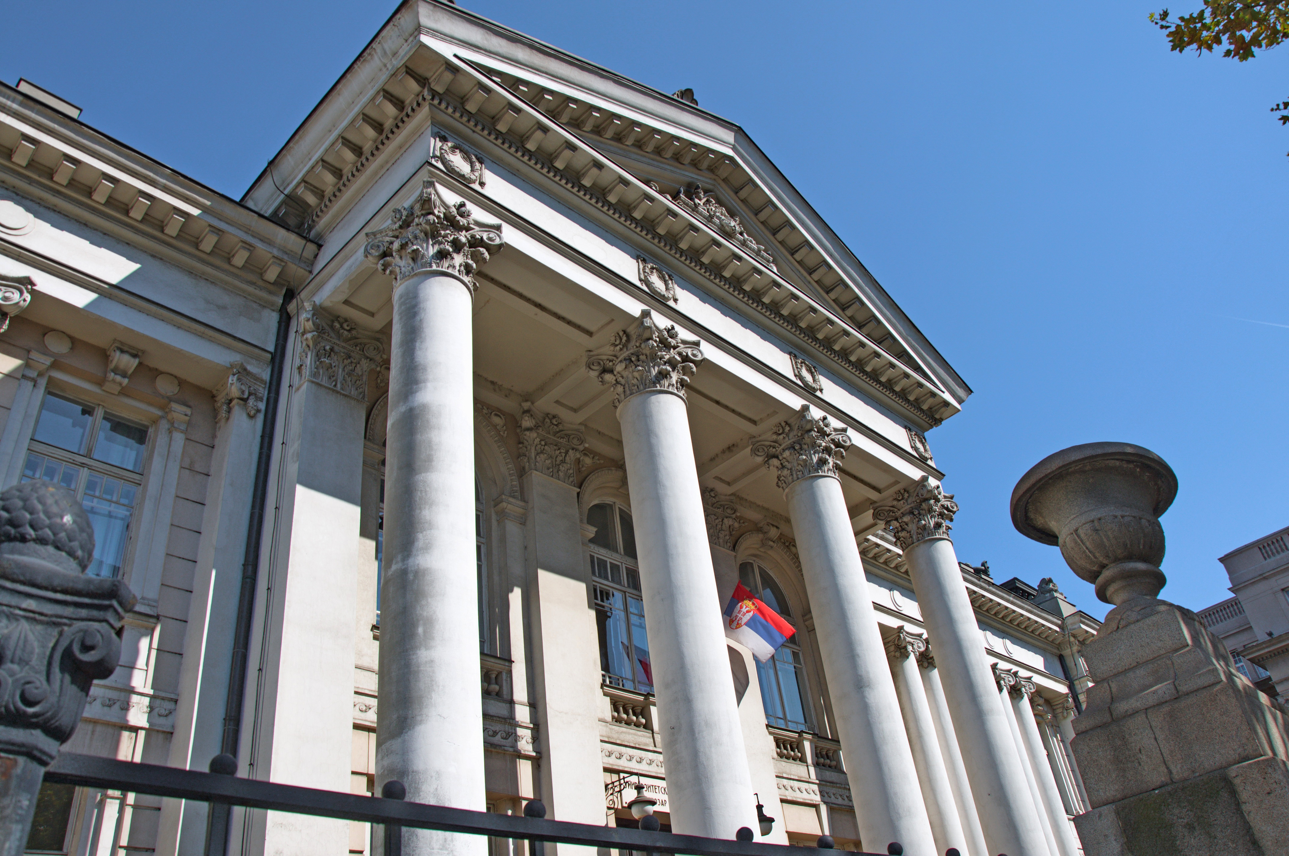 Univerzitetska biblioteka„Svetozar Marković“ je naučna biblioteka Univerziteta u Beogradu i nalazi se u zgradi u Bulevaru kralja Aleksandra 71.Na inicijativu našeg poslanika u Vašingtonu, dr Slavka Grujića, Karnegijeva zadužbina, koja je do tada već izgradila čitav niz biblioteka u svetu, prihvatila je da odobri 100.000 dolara kao poklon srpskoj vladi za gradnju i opremanje jedne biblioteke u Beogradu. Profesor dr Slobodan Jovanović, tadašnji rektor Univerziteta, uspeo je ličnim zalaganjem da ta materijalna sredstva uveća državnim kreditima, kako bi se izgradila jedna veća biblioteka, koja bi zadovoljila potrebe Univerziteta. Grad Beograd je poklonio zemljište, a projekat su uradili profesori univerziteta, arhitekti Dragutin Đorđevići Nikola Nestorović. Tako je podignuta prva i tada jedina zgrada u Srbiji, namenski sagrađena za biblioteku.